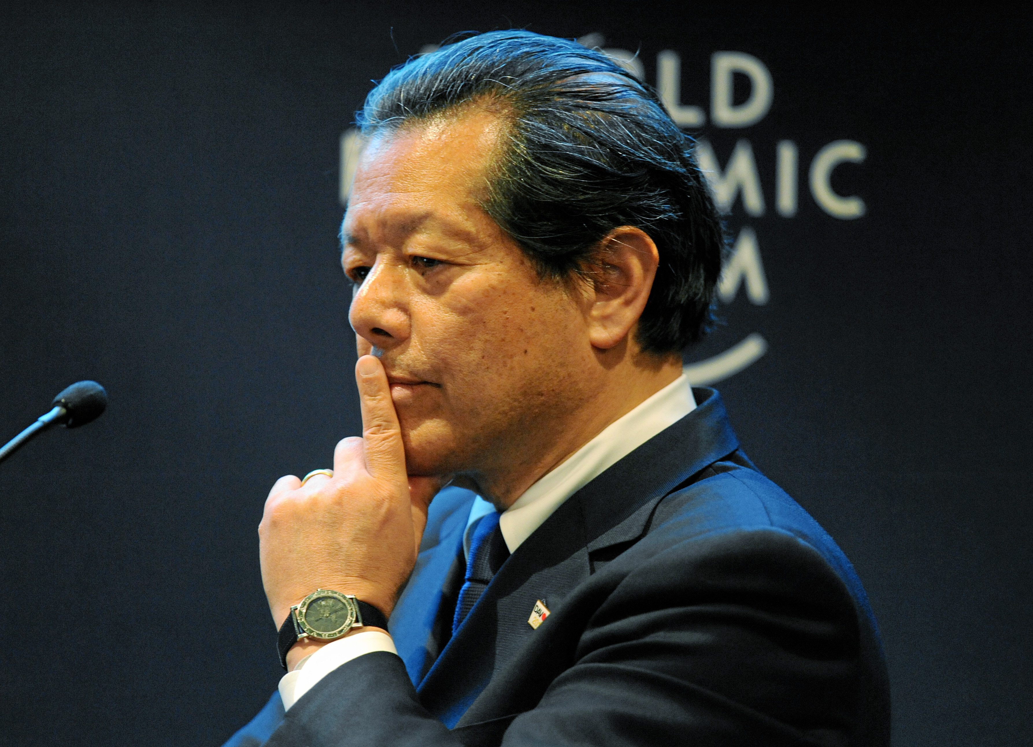 Yōichi Funabashi, President of the Rebuild Japan Initiative Foundation, talked about "Complexity and Crisis: The Case of Japan" at the World Economic Forum Annual Meeting in Davos Municipality, Graubünden Canton on January 26, 2012.